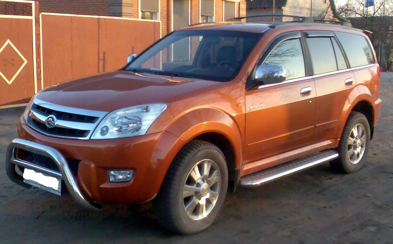 great wall hover